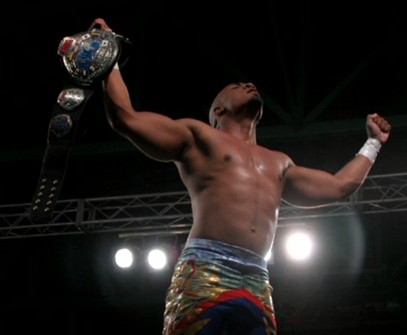 Hiram Tua celbrating following his first IWA Undisputed World Heavyweight Championship victory at the International Wrestling Association's Juicio Final 2011 event.